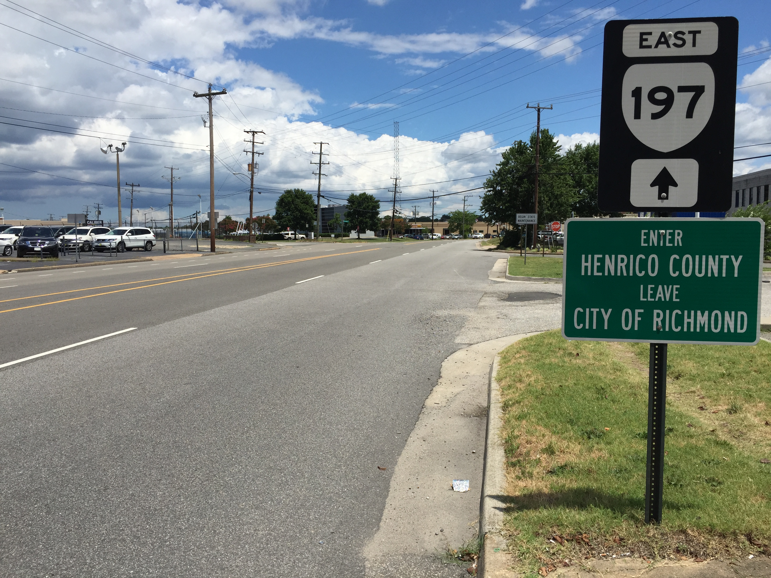 View east along Virginia State Route 197 (Westwood Avenue) at U.S. Route 250 (Broad Street) just northwest of Richmond in Henrico County, Virginia